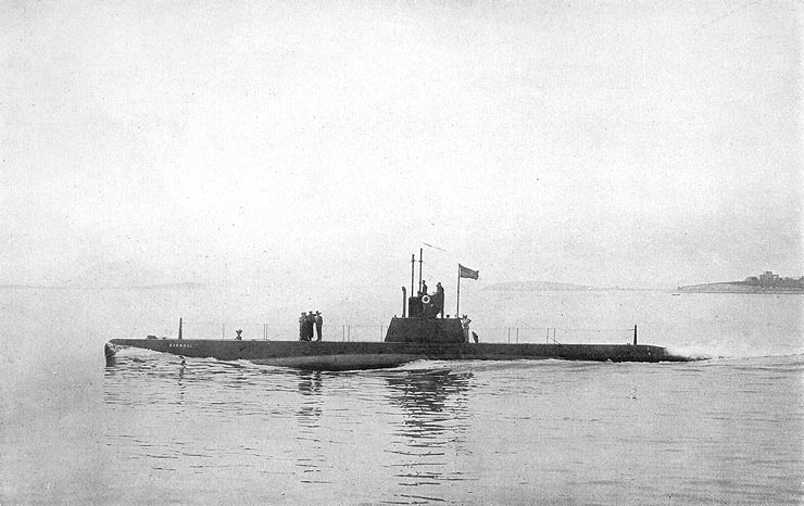 USS Narwhal (Submarine # 17) Fine screen halftone reproduction of a photograph of Narwhal underway, circa 1909-1911. Copied from "The New Navy of the United States", by N.L. Stebbins, (New York, 1912). Original caption: “Photo # NH 99123 USS Narwhal underway, circa 1909-1911” — removed caption